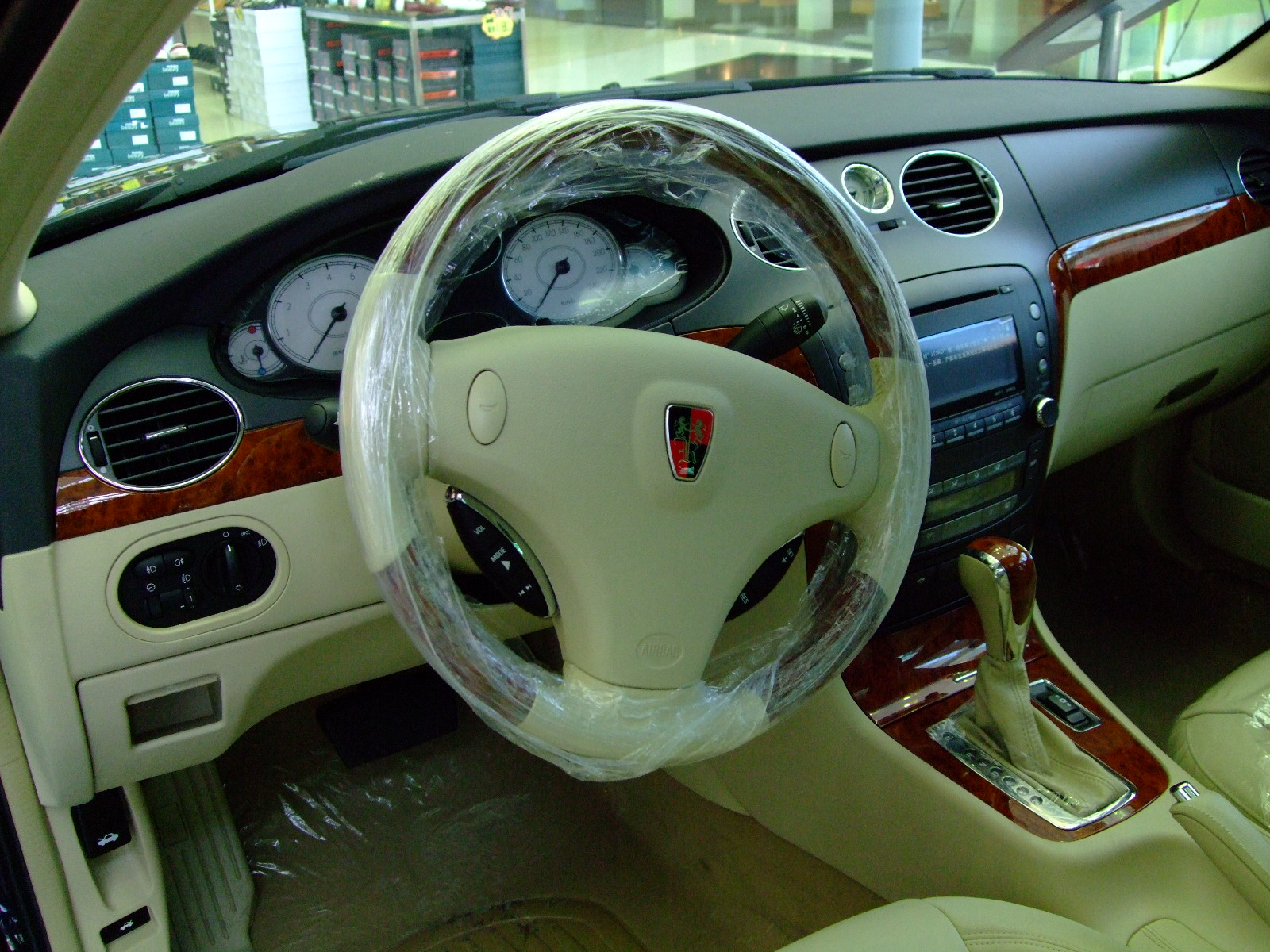 2008 Roewe 750 dashboard and steering wheel